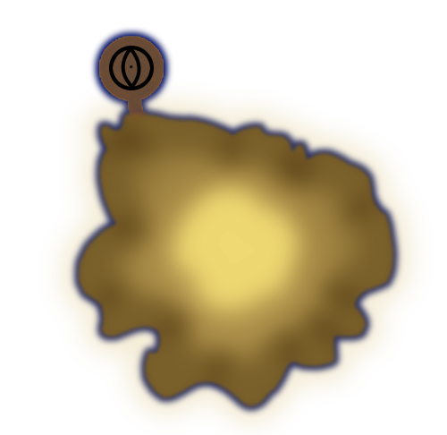 A map of Prison Island, in Riven game. Made by AElfwine with the Gimp2.2.